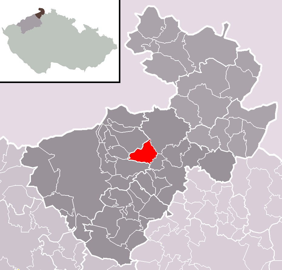 Location of Srbská Kamenice municipality within Děčín District and administrative area of Děčín as a Municipality with Extended Competence.